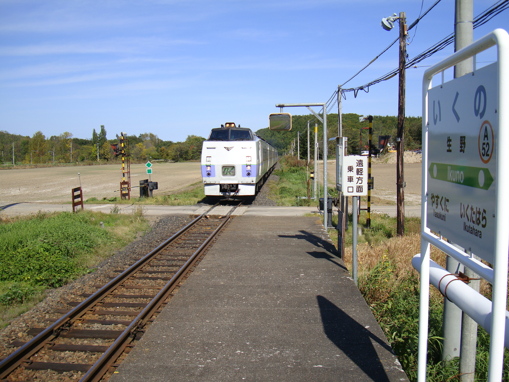 Ikuno Station